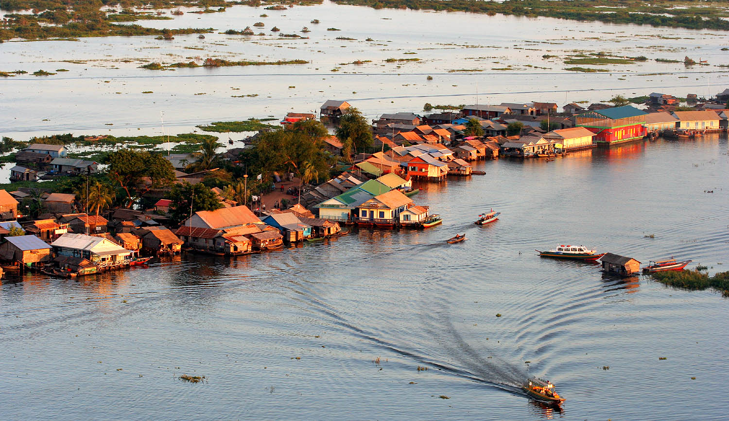 Water dwelling on the lake of Tonle Sap, near Siem Reap, Cambodia